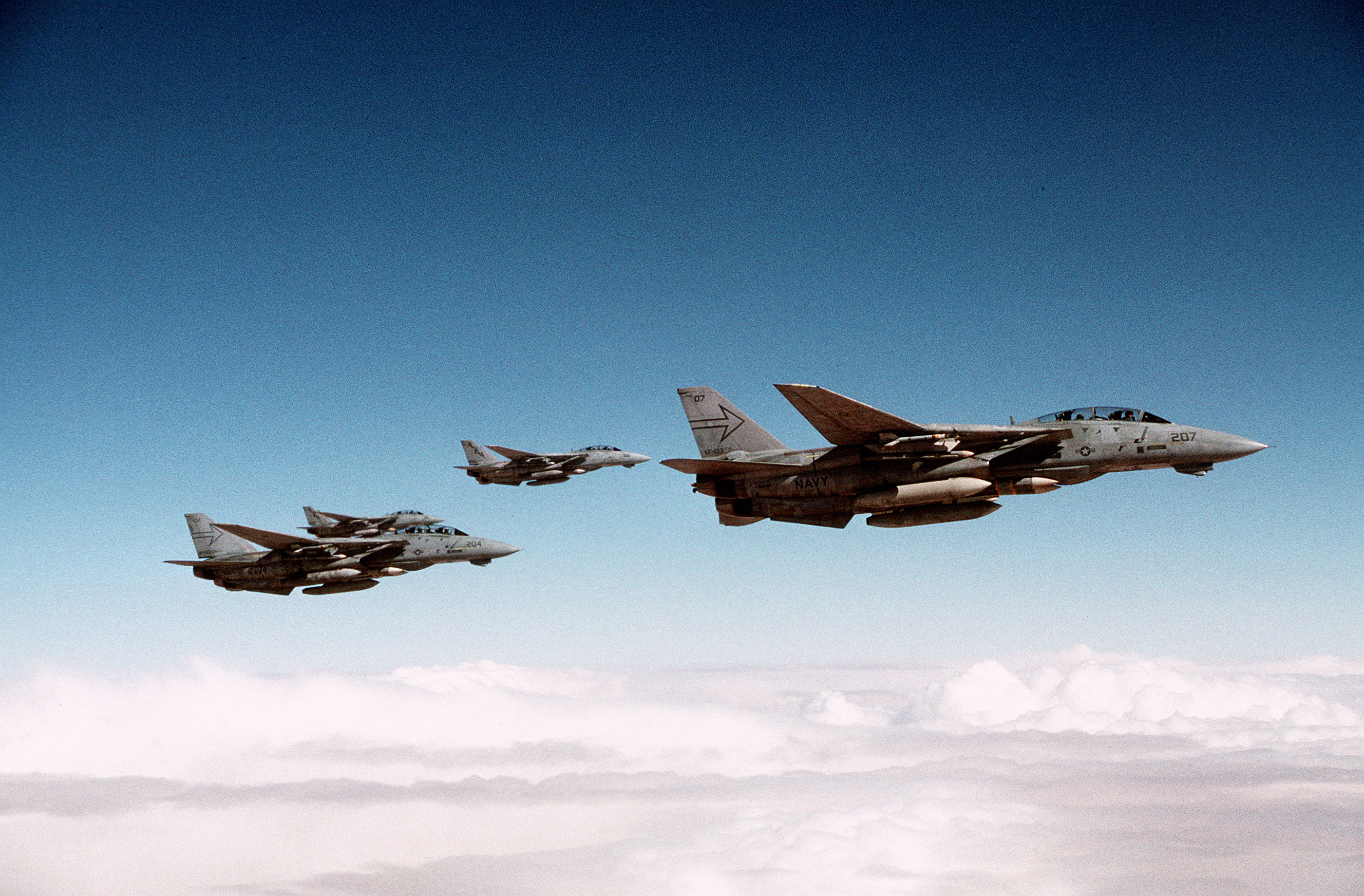 F-14B Tomcat aircraft fly in formation as they wait their turn for refueling during Operation Desert Storm in 1991. The two aircraft in the foreground are from Fighter Squadron 103 (?V�F-103) while the two in the background are from Fighter Squadron 74 (VF-74); both were operating from USS Saratoga (CV-60) as part of the Battle Force Red Sea.